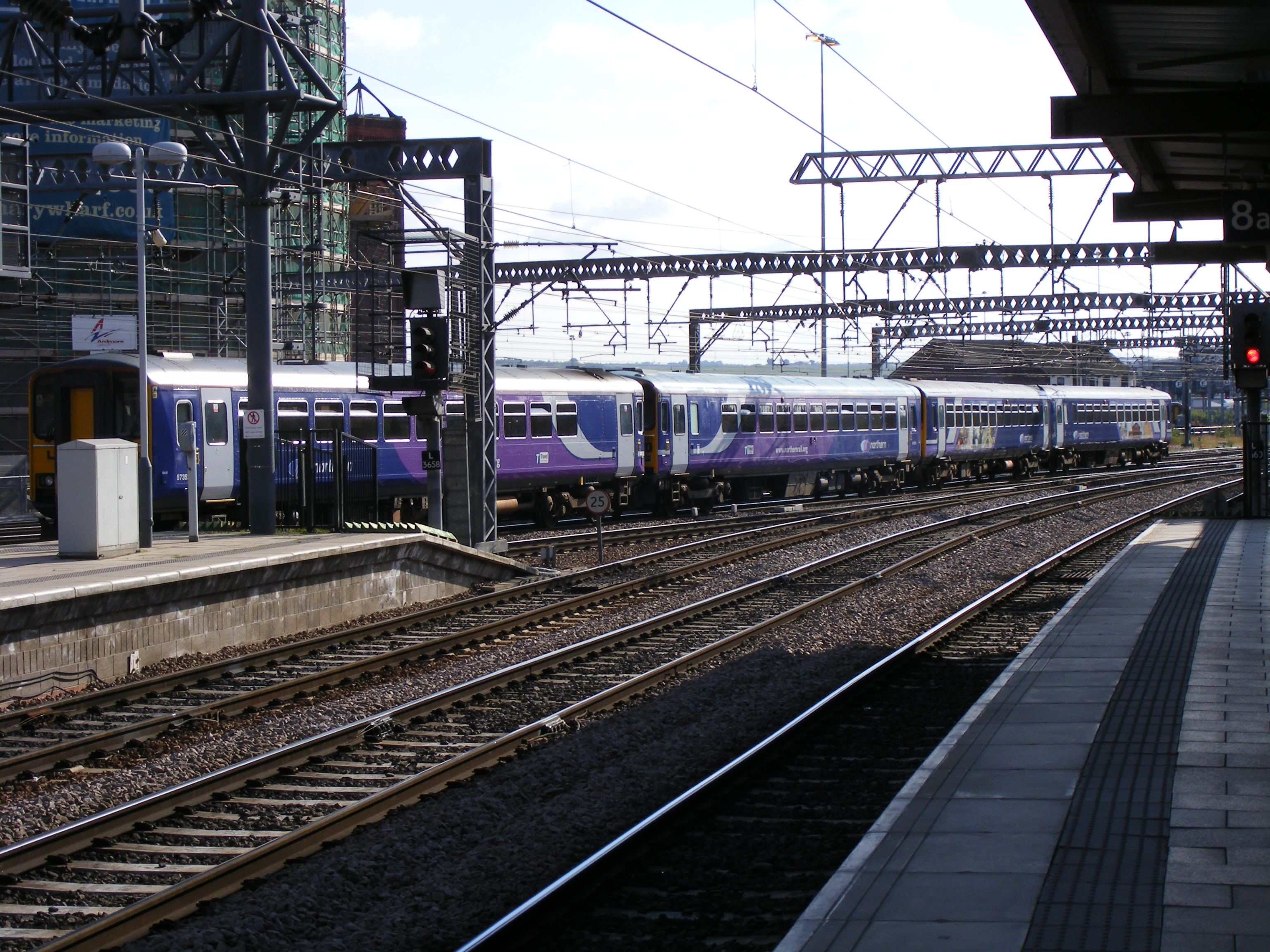 Two Northern Rail class 153s and a 155 arranged in their original consist.